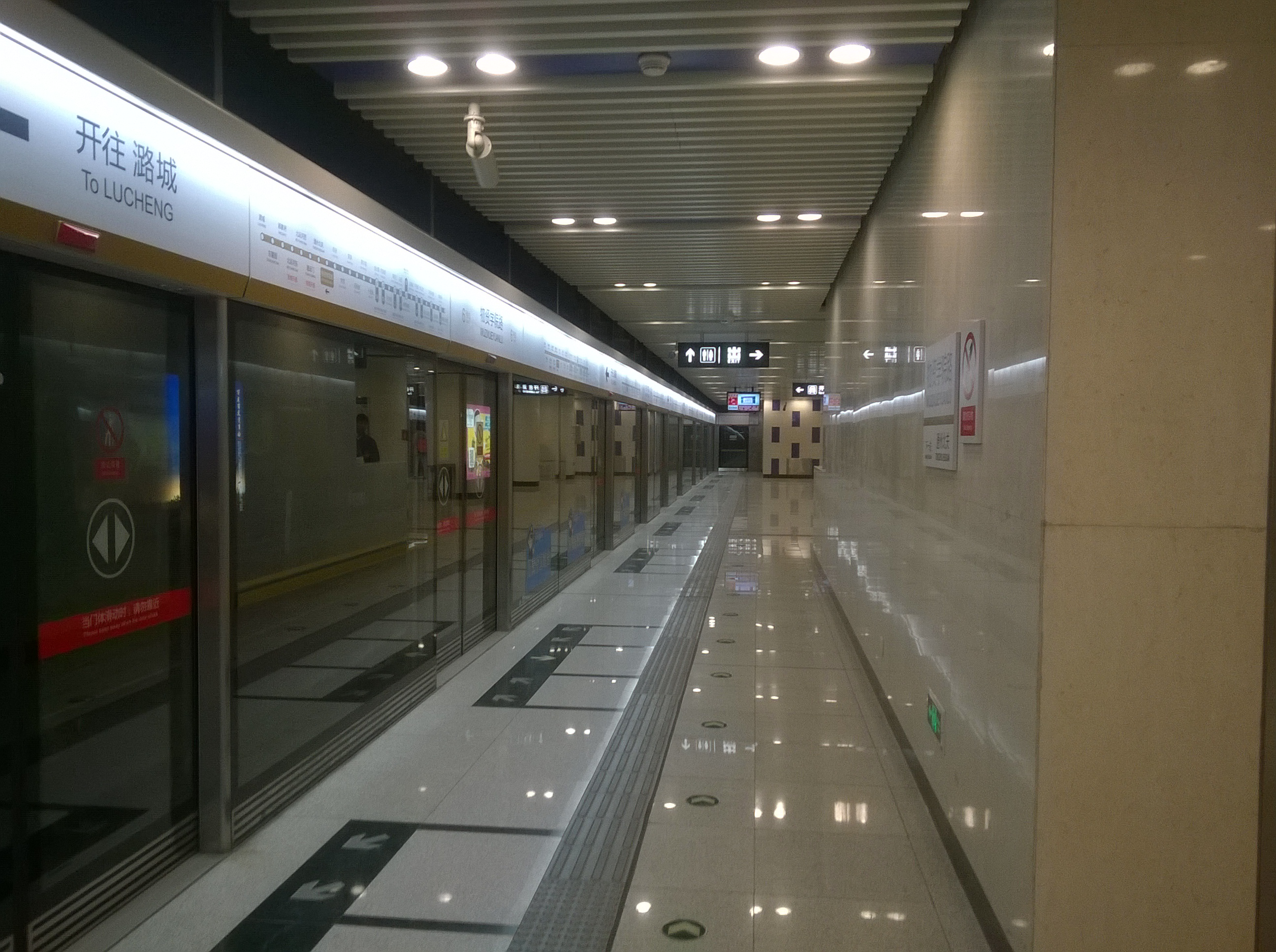 platform of Wuzixueyuanlu Station, Line 6, Beijing Subway中文（中国大陆）: 北京地铁6号线物资学院路站台